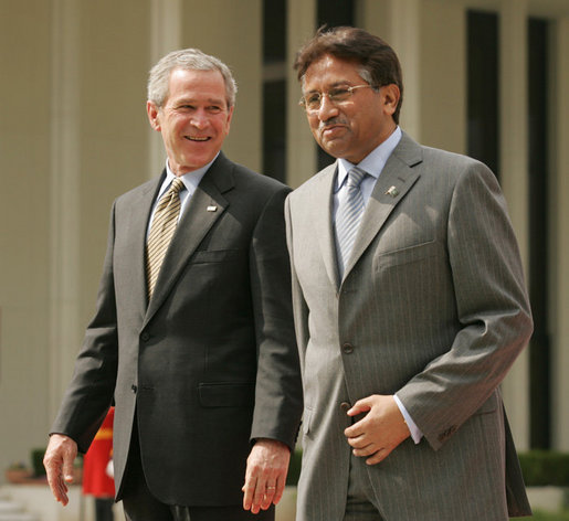 President George W. Bush and Pakistan President Pervez Musharraf walk together to their joint news conference at Aiwan-e-Sadr in Islamabad, Pakistan, Saturday, March 4, 2006.